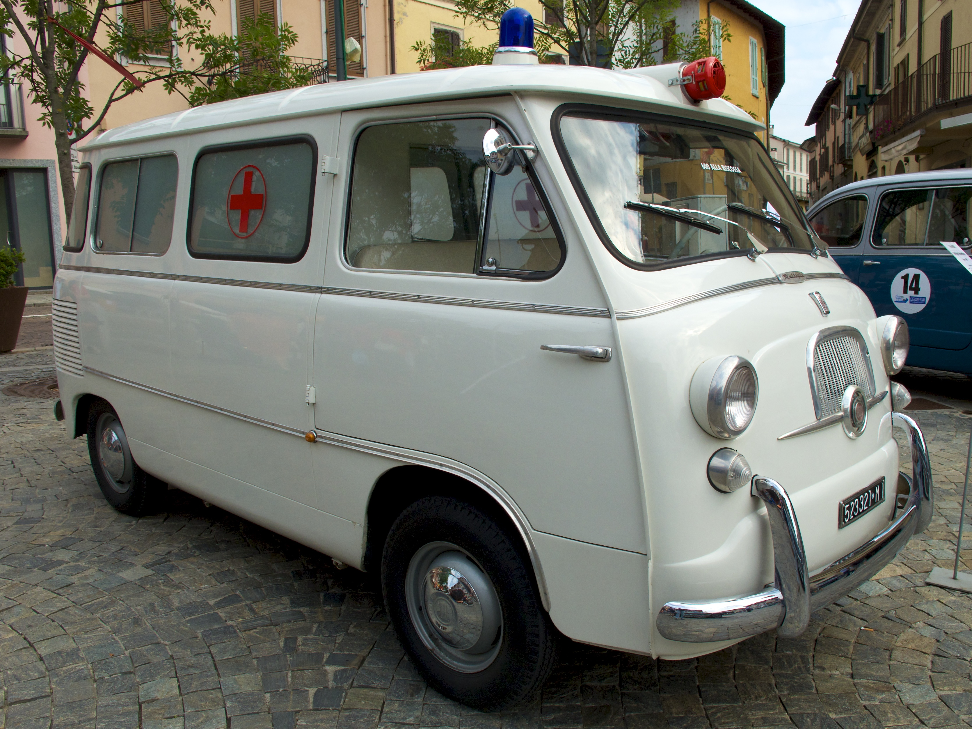 Fiat 600 Multipla ambulance by Carrozzeria Coriasco, in Sesto Calende, Lombardia. I think that is one of the tiniest ambulances ever made.